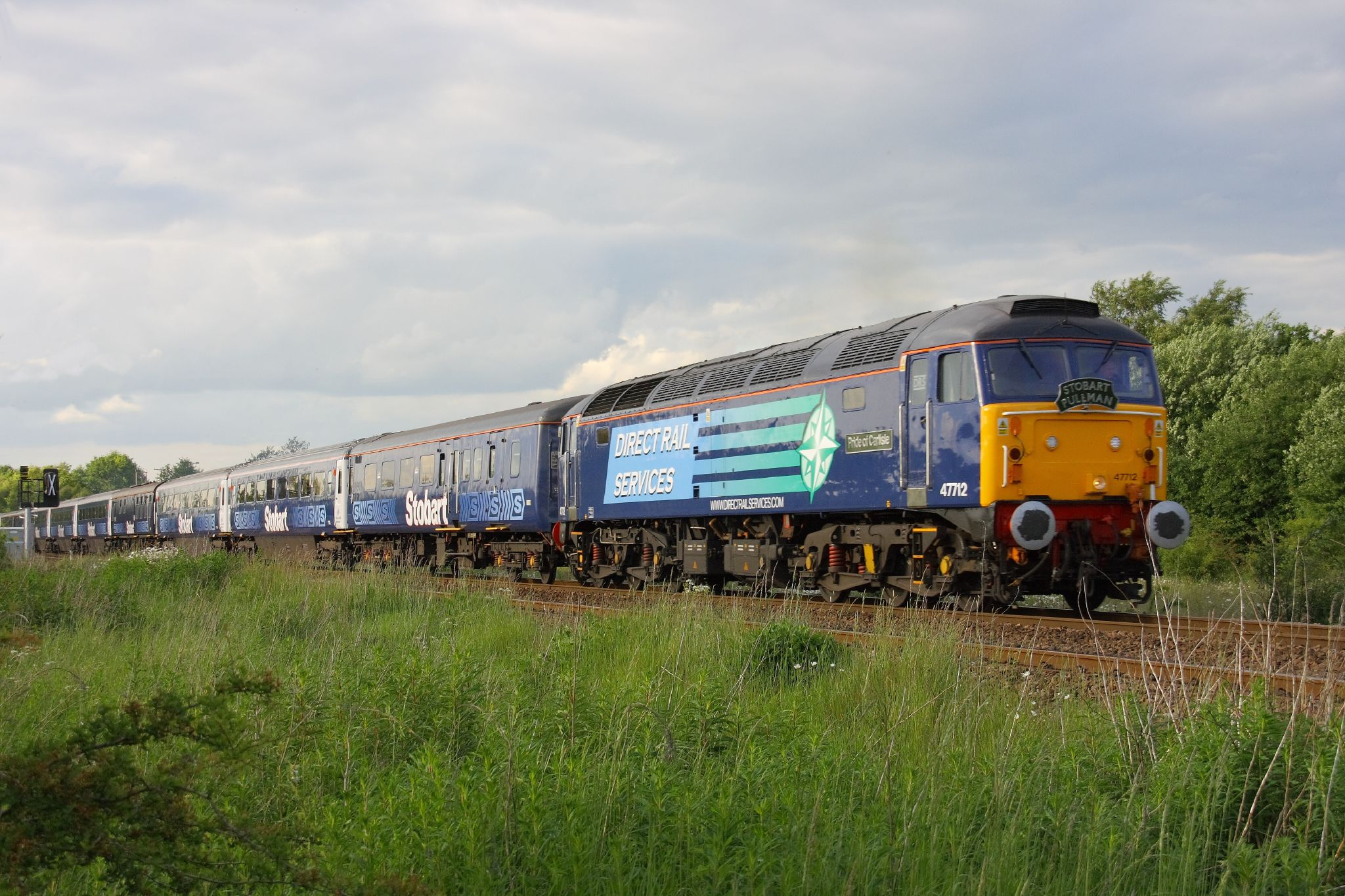 An Eddie Stobart Pullman diesel charter train hauled by DRS Class 47 number 47712 photo 1